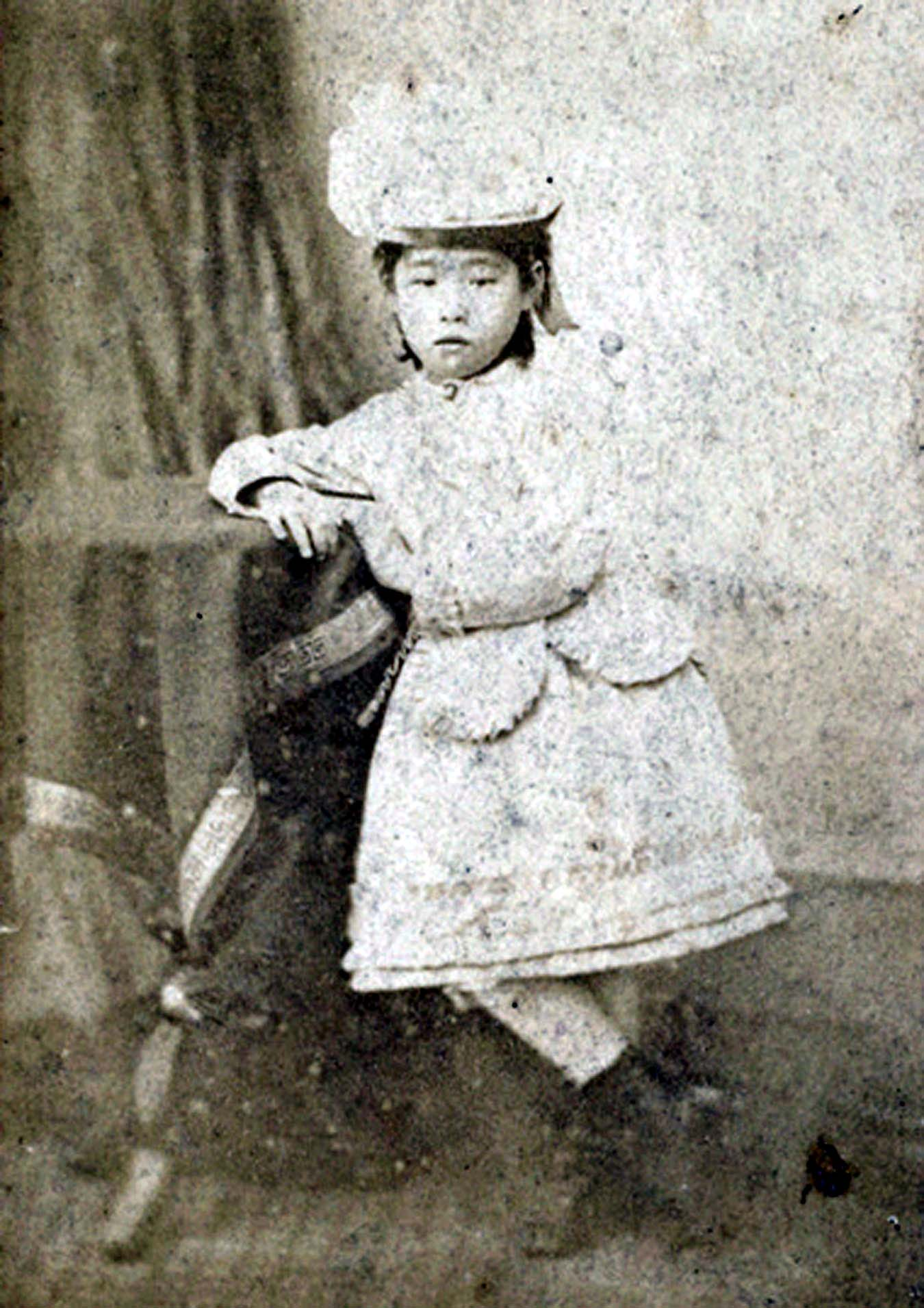 Umeko Tsuda (1864–1929) shortly after her arrival in the US.